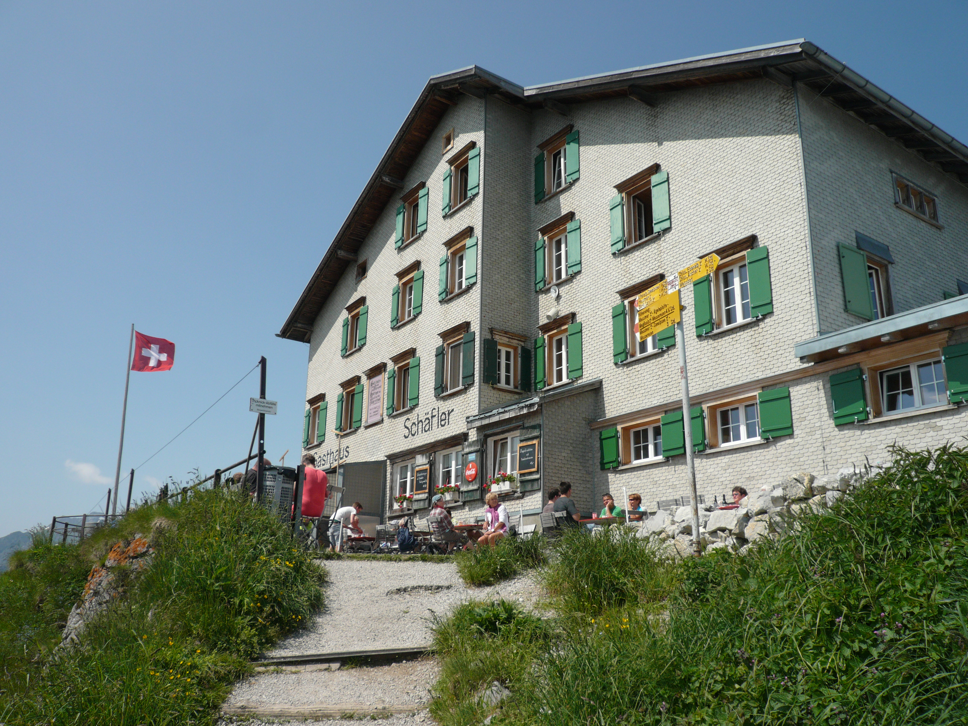 Restaurant on mountain Schaefler, Switzerland